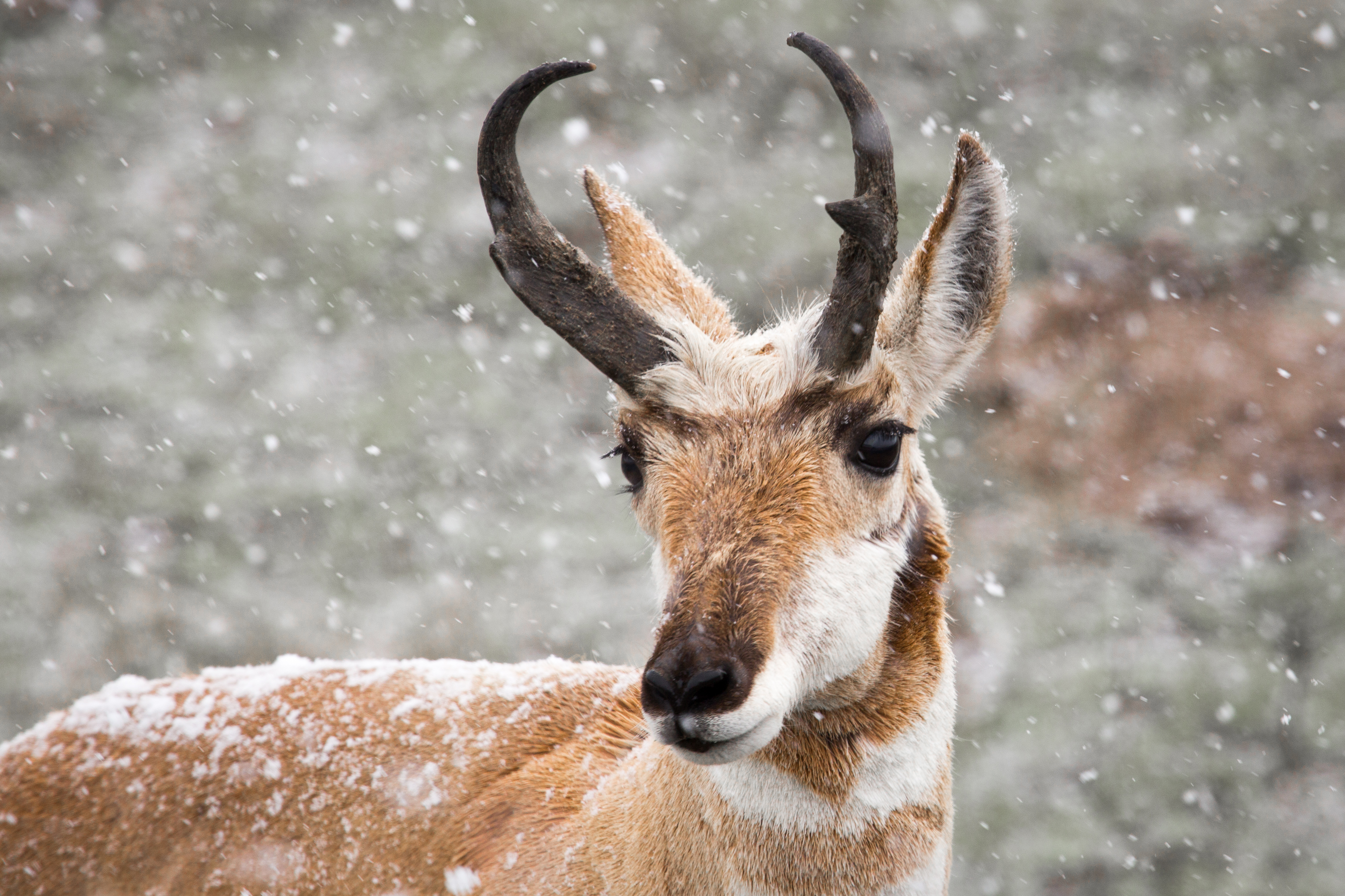 Pronghorn buck; Neal Herbert; May 2014; Catalog #19735d; Original #7349